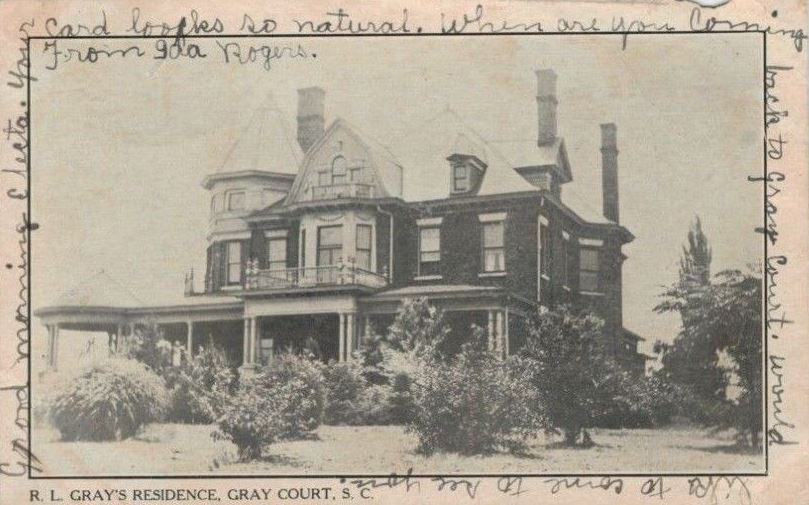 This postcard, mailed in September 1907, shows the residence of R.L. Gray in Gray Court, South Carolina.